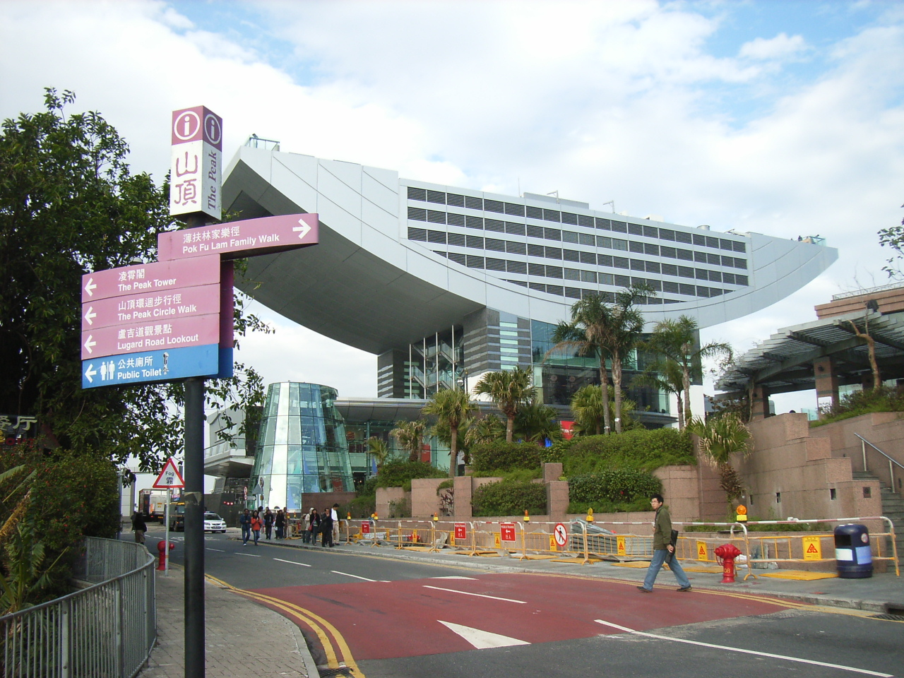 山頂道, Peak Road, Victoria Peak, Hong Kong Photographer and author is ParkerStarS.